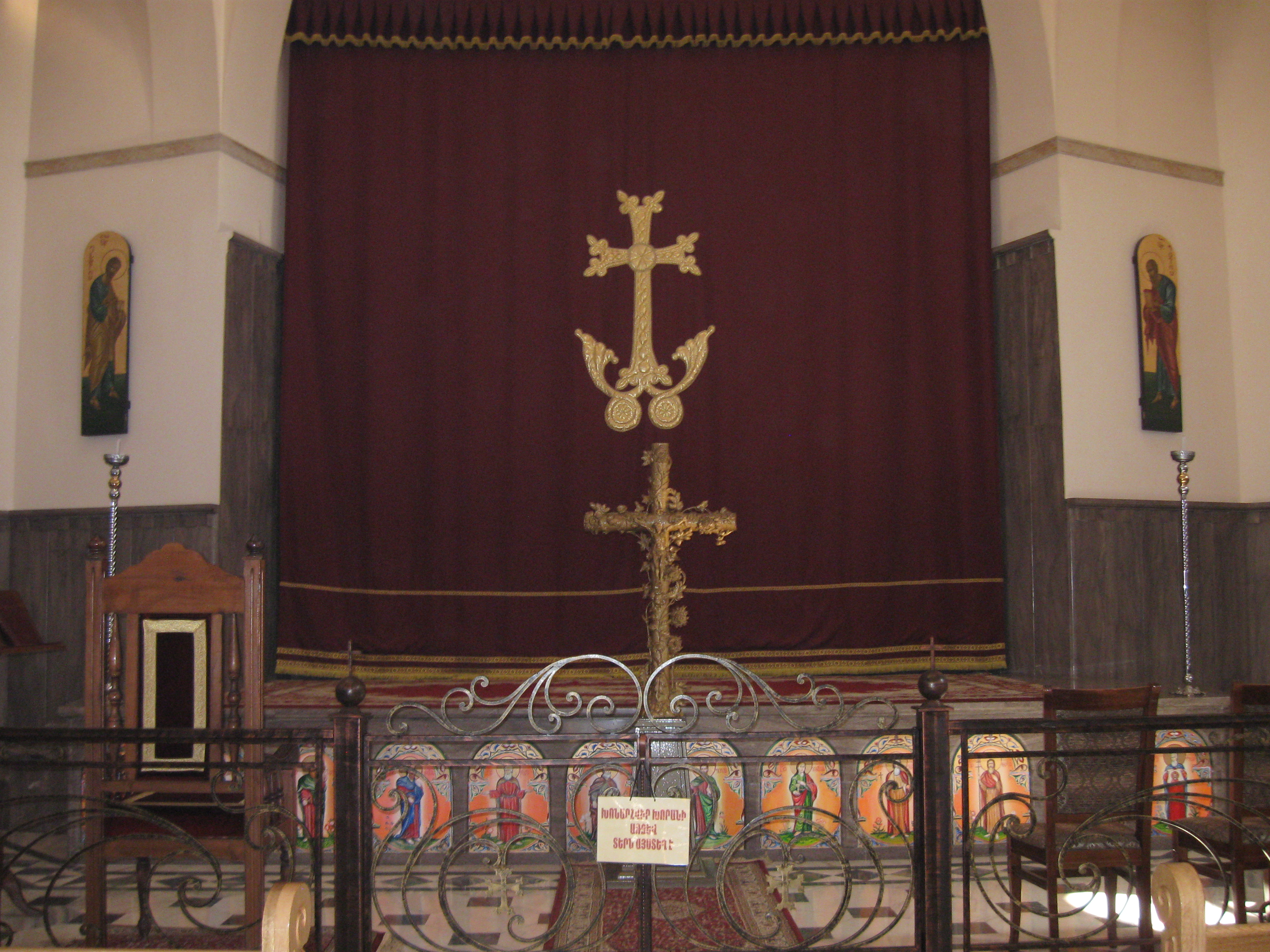 Srbots Nahatakats catholic church in Gyumri, Shirak, Armenia